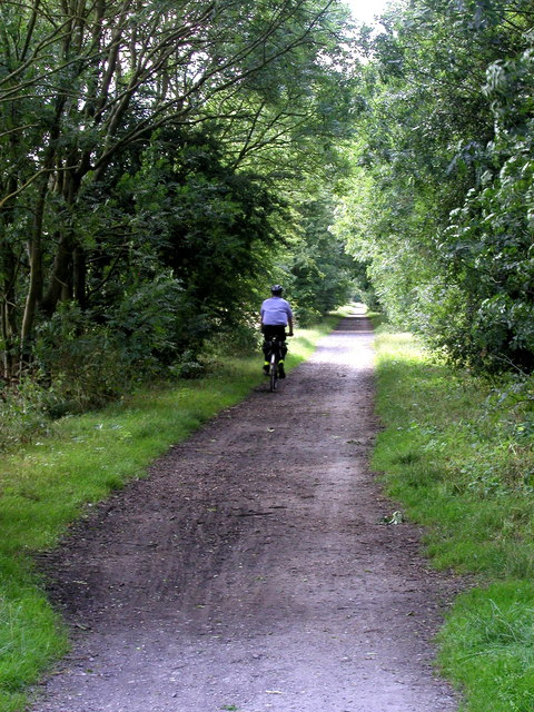 Cyclist on the old Hull to Hornsea Trackbed, Ellerby, East Riding of Yorkshire, England.